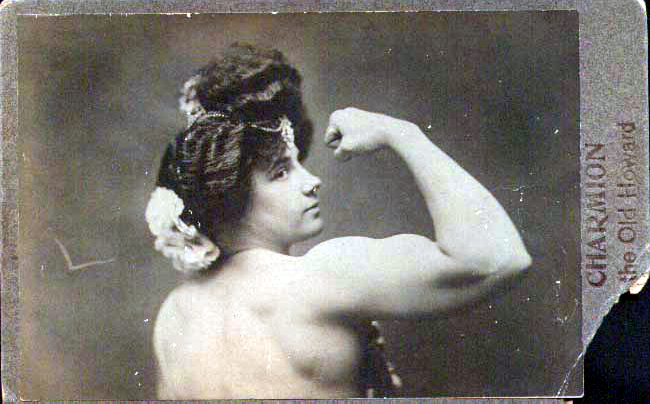 "Charmion" (real name Laverie Vallee, 1875 - 1949), a vaudeville strongwoman and trapeze artist who appeared at the Old Howard in the late 19th century.